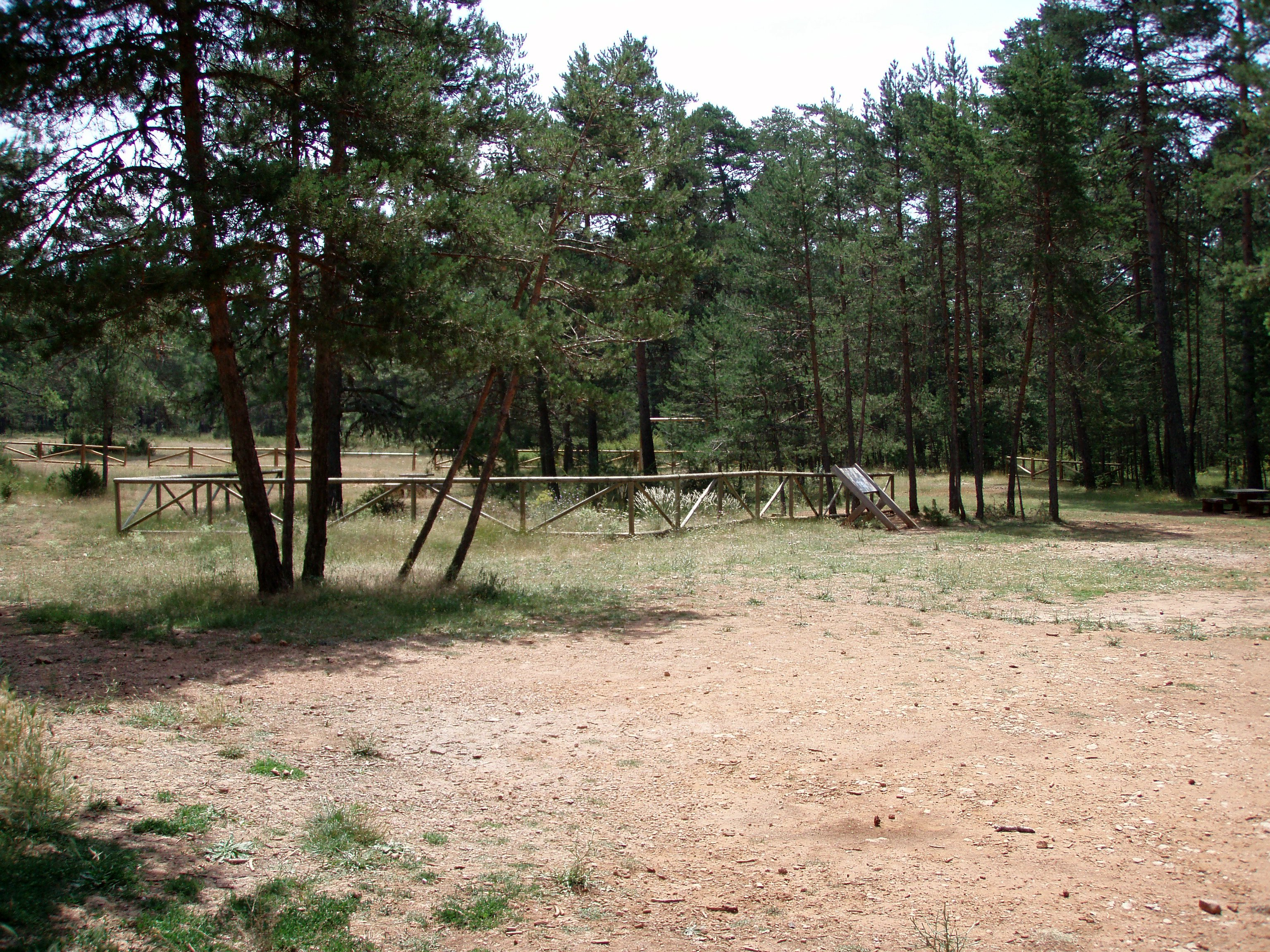 Alcorón Chasm in Villanueva de Alcorón